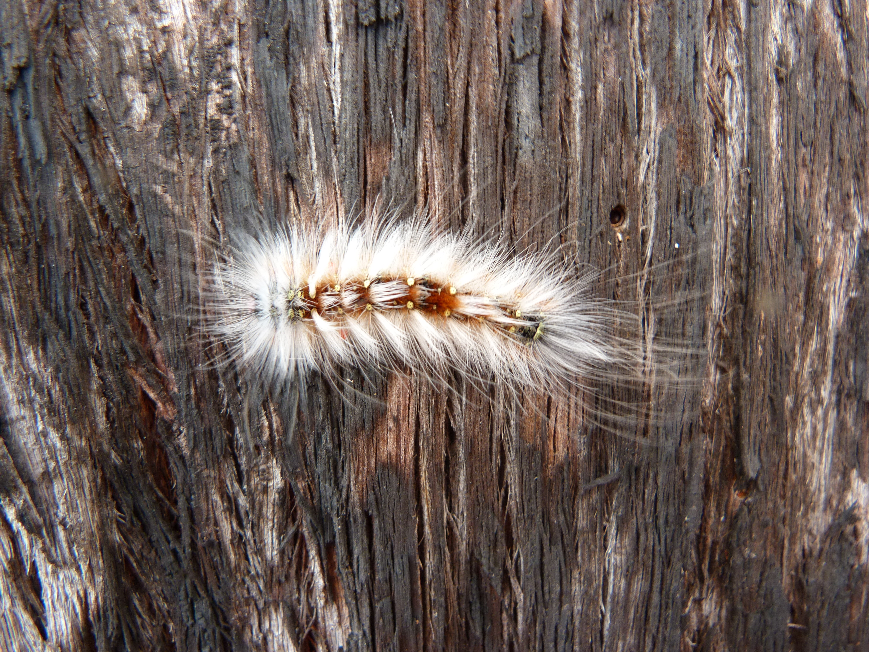 Anthela varia (Walker, 1855), larva, Black Mountain, Canberra, ACT, 19 January 2011